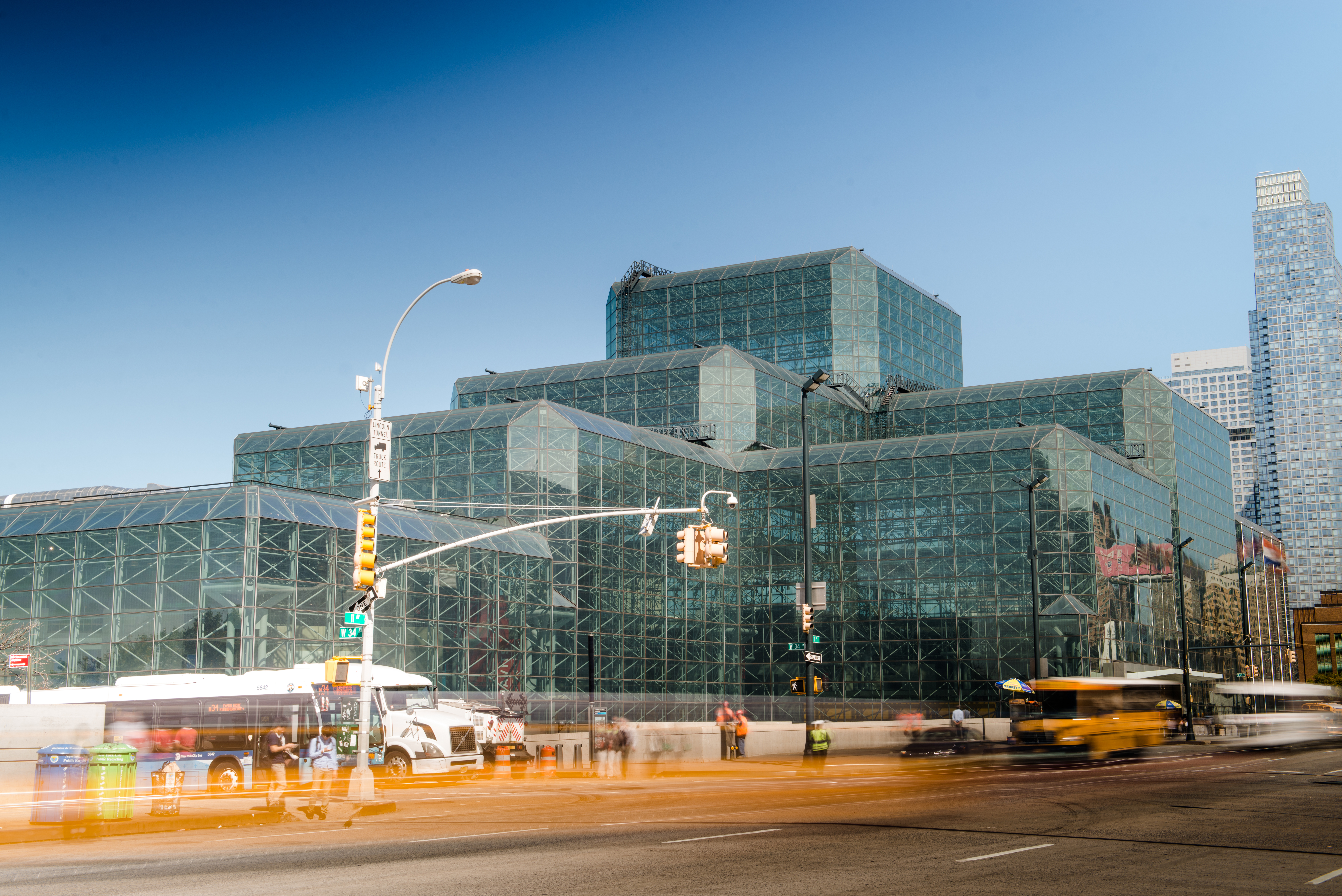 Javits Center - big photo